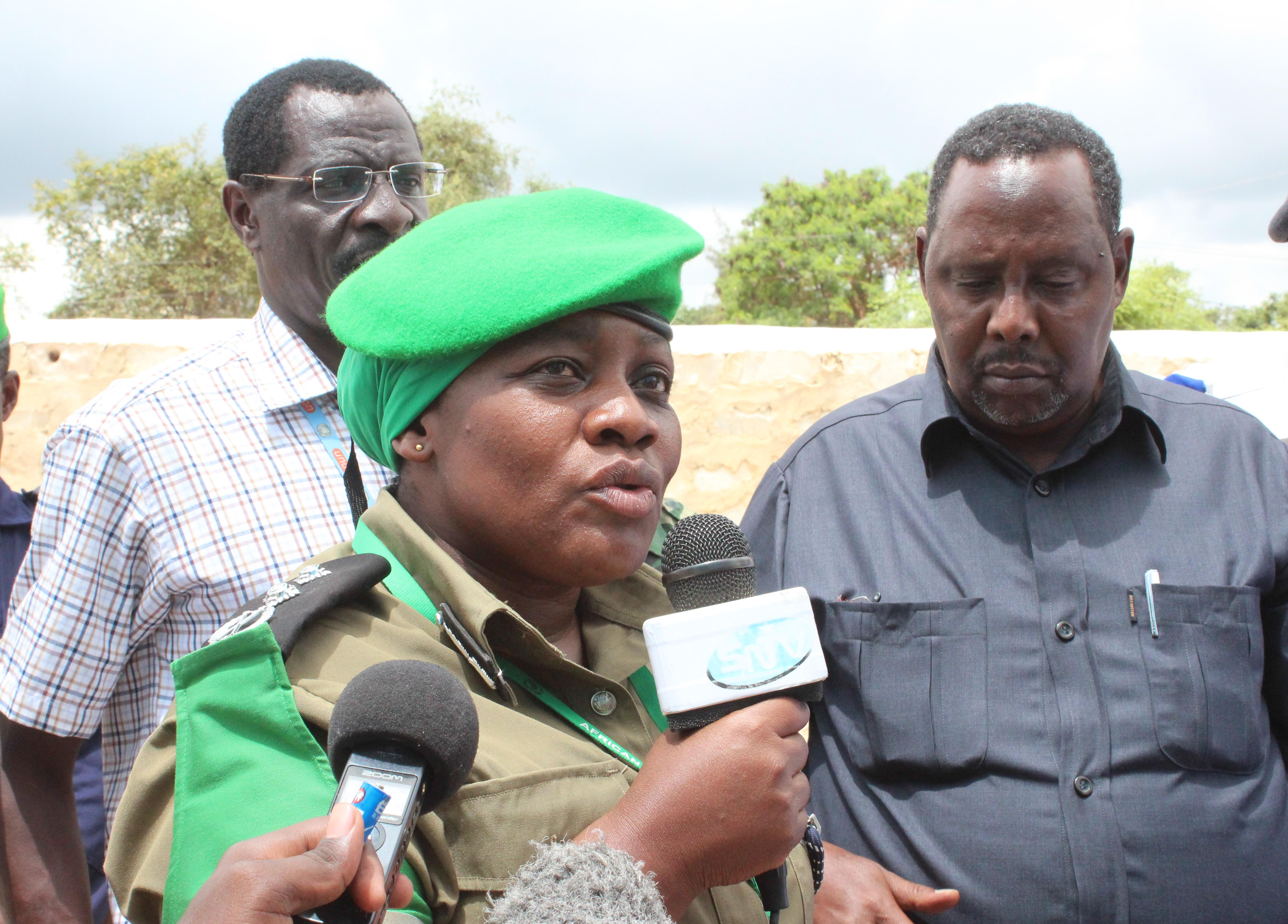 The African Union Mission in Somalia (AMISOM) Deputy Police Commissioner, Christine Alalo, speaks during the opening cermony of the newly renovated health clinic in Baidoa, Somalia, on October 27, 2015. AMISOM Photo/ Sabir Olad